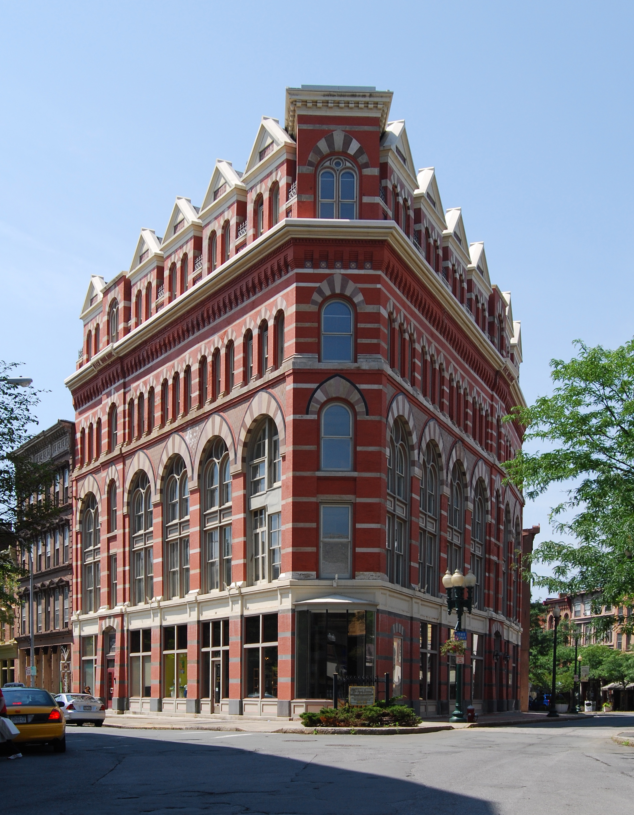 The Rice Building, a contributing property of the Central Troy Historic District in Troy, New York, United States